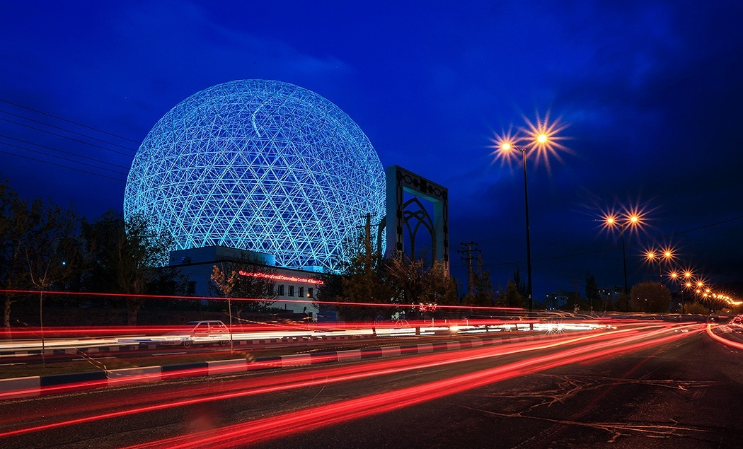 Hamedan